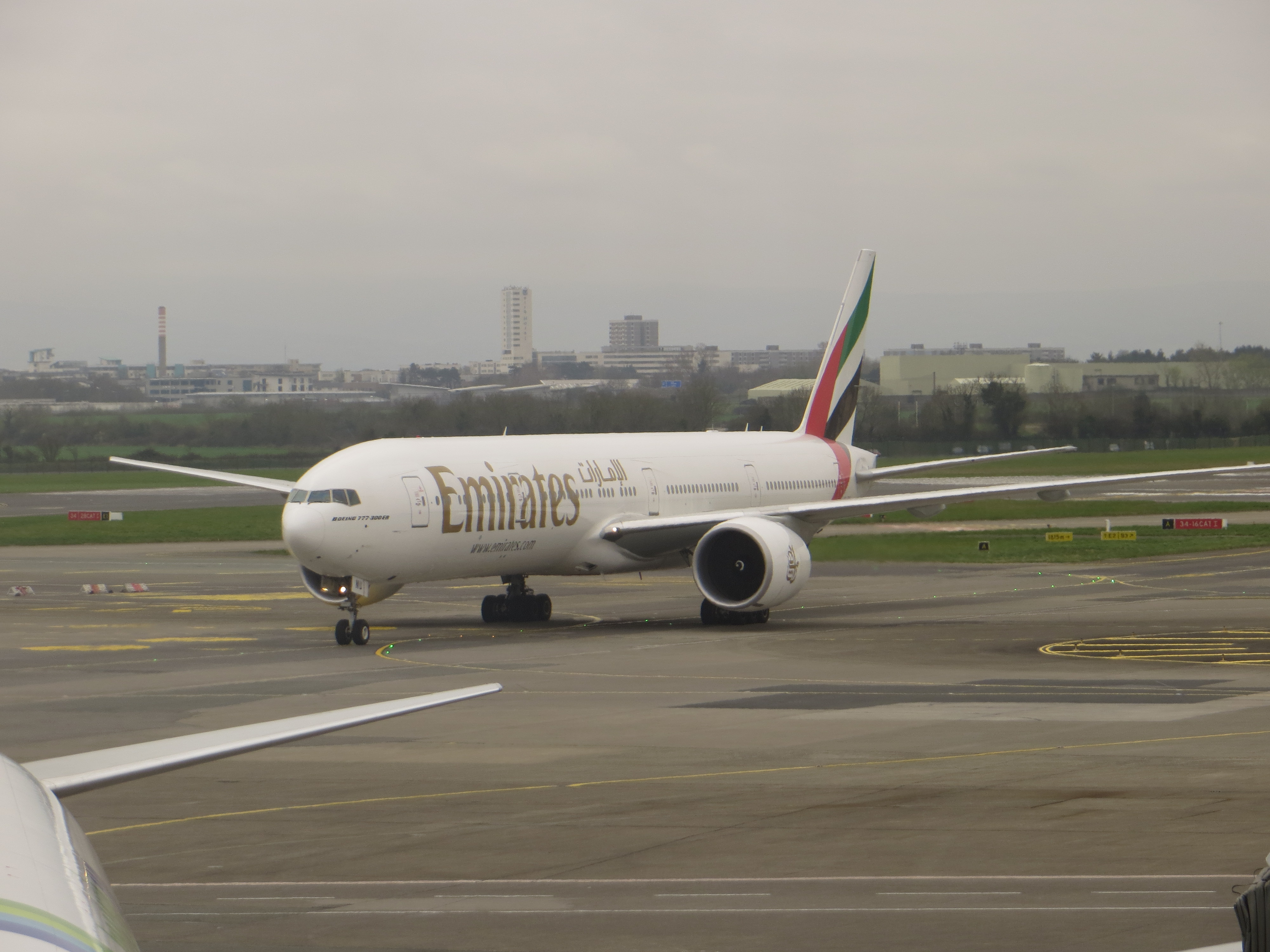 An Emirates Boeing 777-300ER taxiing to gate at Dublin (DUB) after a flight from Dubai (DXB).